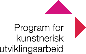 The logo of The Norwegian Artistic Research Programme. Designed by Snedig (snedig.no)